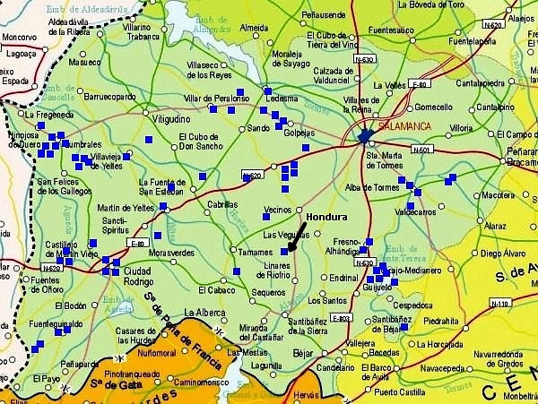 Map of megalitic buildings in the province of Salamanca